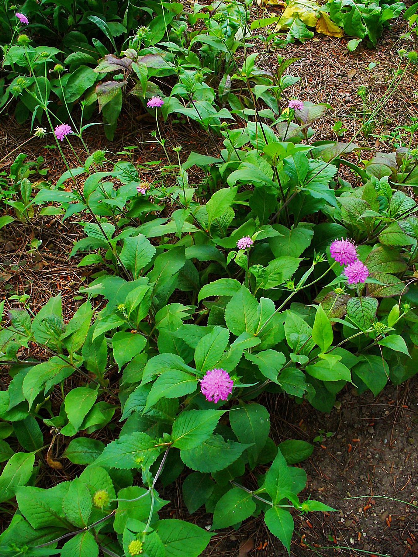 Knautia drymeia, Dipsacaceae, Hungarian Widow Flower, habitus; Botanical Garden KIT, Karlsruhe, Germany.